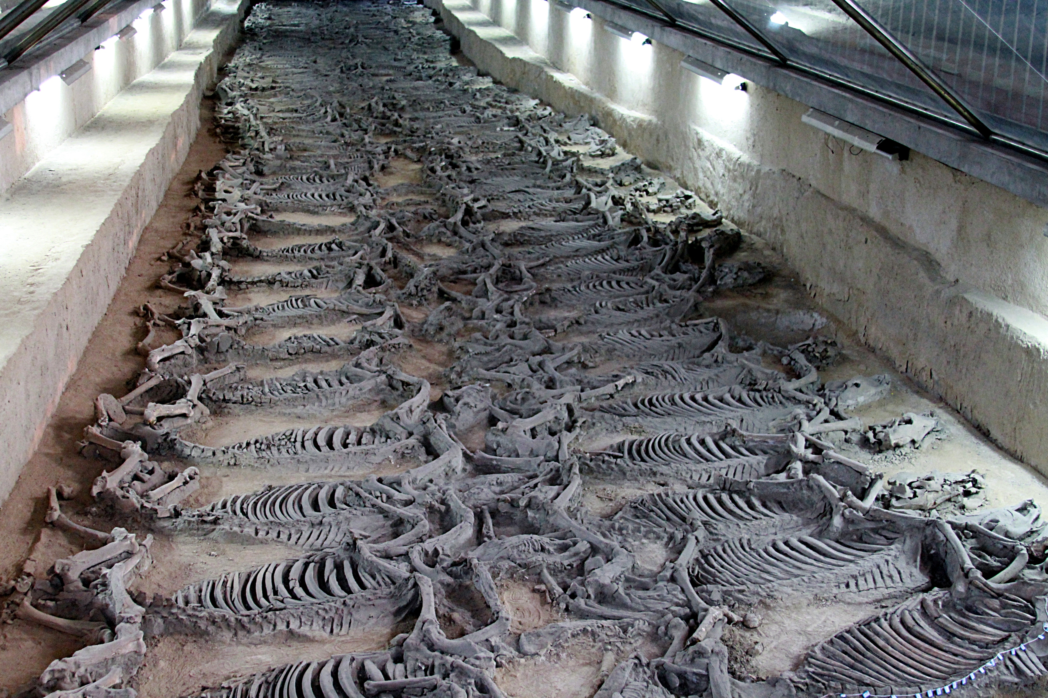 Photograph of horse skeletons in the "Sacrificial Horse Pit", a burial site from the times of the State of Qi, believed to belong to the tomb of Duke Jing of Qi who reigned from 547 to 490 BC.